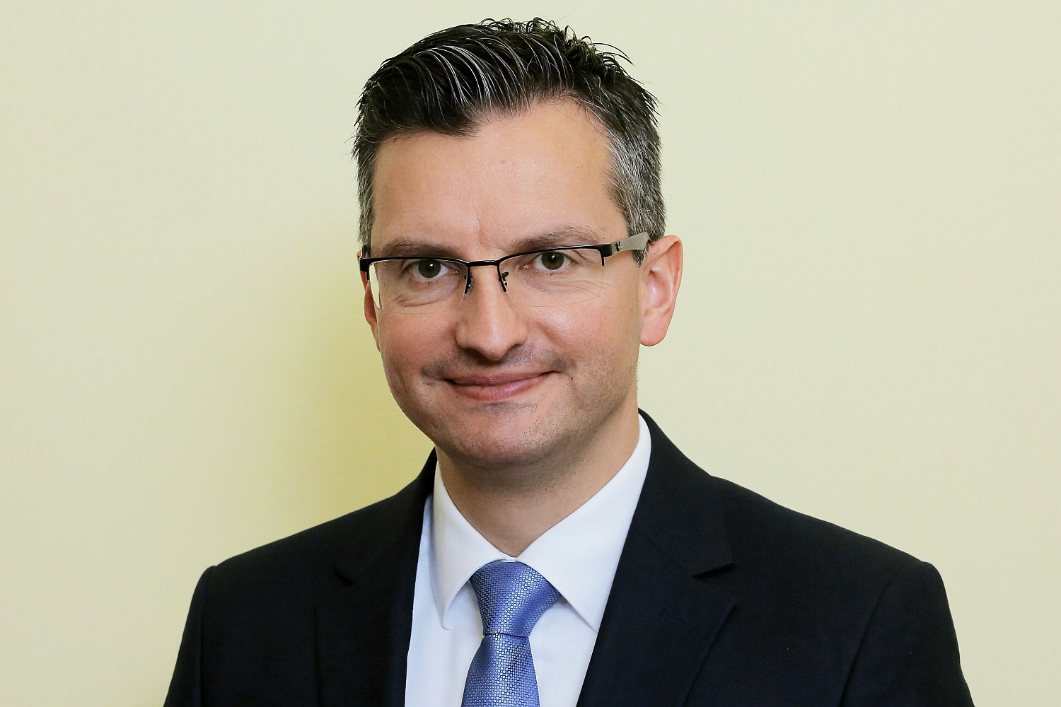 Marjan Šarec - Republic of Slovenia - 13th government/ President